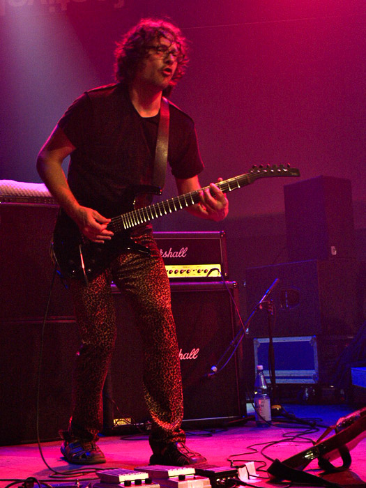 Raoul Bjorkenheim at moers festival 2006 own photo, june 5, 2006- photo: nomo/michael hoefner